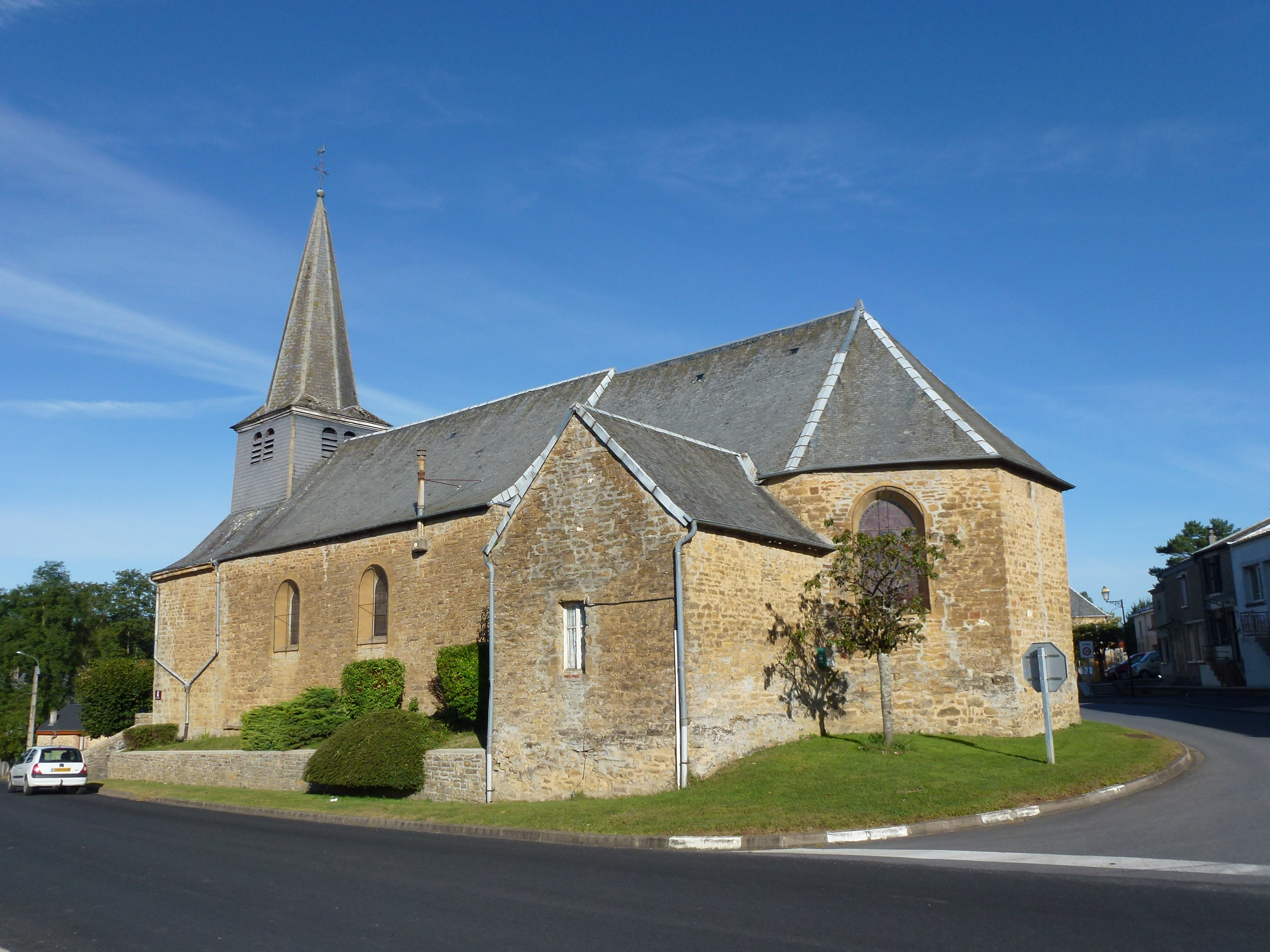 Lonny (Ardennes) église, chevet